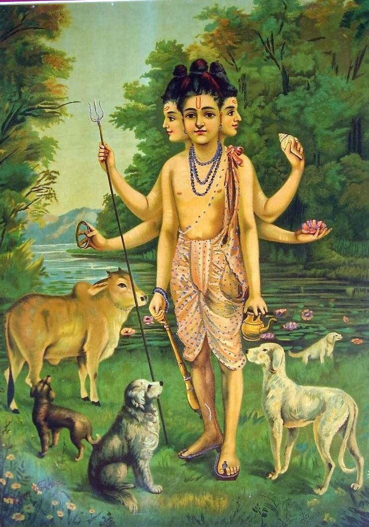 Dattatreya, the incarnation of the thrimoorthis, Brahma, Mahavishnu and Maheswar (Shiva). Printed at Ravi Varma Press, Malavli near Lonavala, Maharashtra.